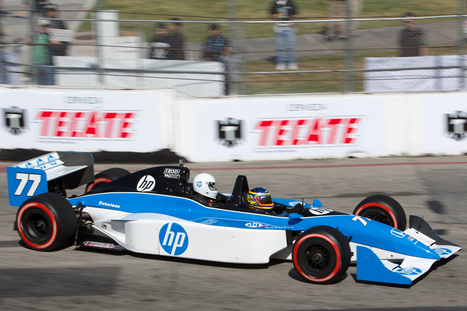 The IndyCar Two-Seater car at the 2012 Toyota Grand Prix of Long Beach.